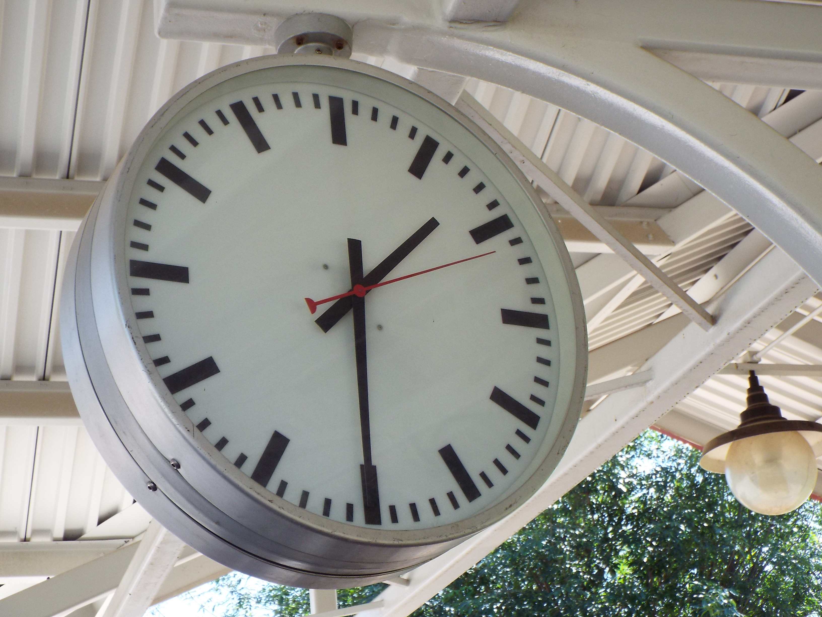 The Swiss Railroad Clock donated to the McCormick-Stillman Railroad Park by the City of Interlaken, Switzerland. References for this description (or part of this) or for the depiction in the file are not provided. Reason: January 2017. Template:WhenTemplate:Specify This was done in commemoration of the sister cities partnership of the cities of Interlaken and Scottsdale.Template:Cn The Swiss Railroad Clock was designed in 1944 by Hans Hilfiker and was used by the Swiss federal Railways as a station clock. The McCormick-Stillman Railroad Park is located at 7301 E Indian Bend Rd, Scottsdale, Arizona.